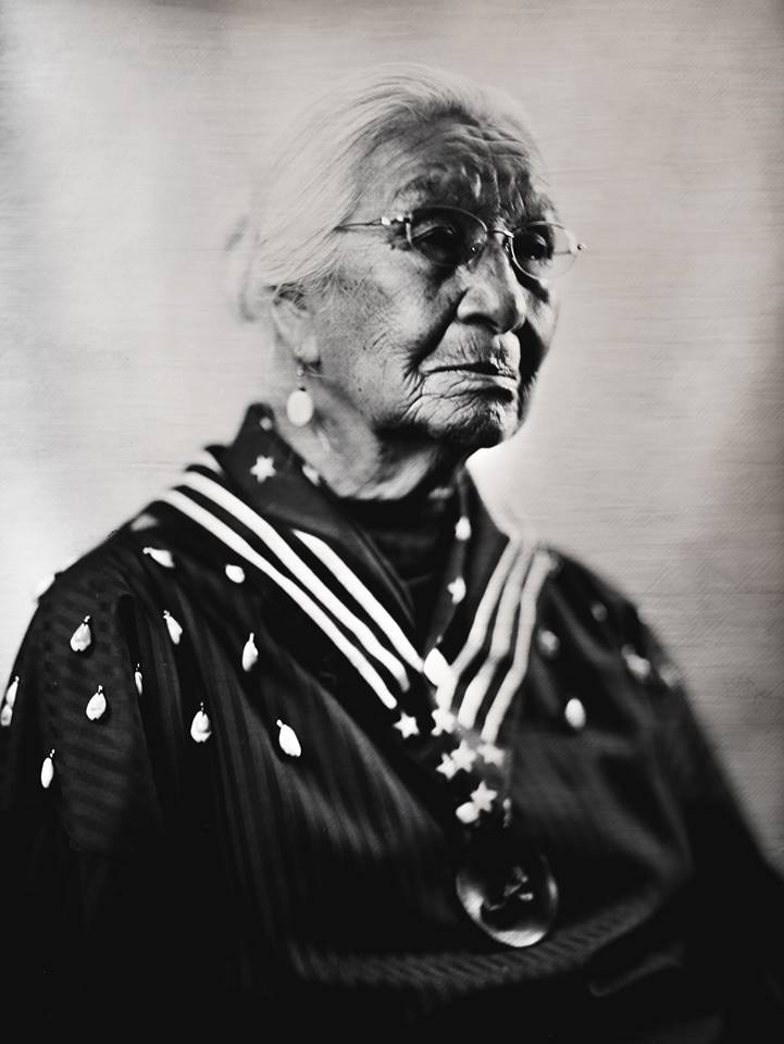 A wet plate collodion photograph of Marie Louise Defender Wilson